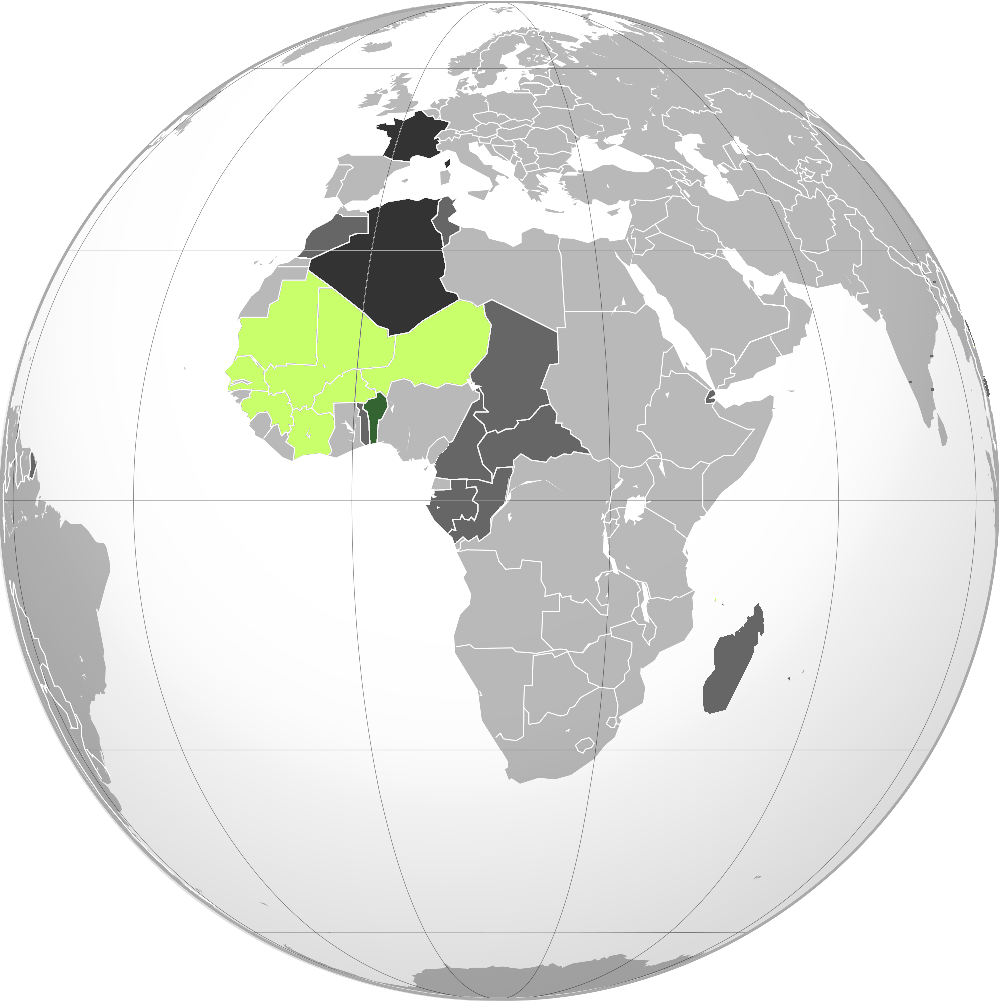 Map showing French Dahomey. (Dark Green: French Dahomey; Lime: French West Africa; Dark gray: Other French possessions; Darkest gray: French Republic)